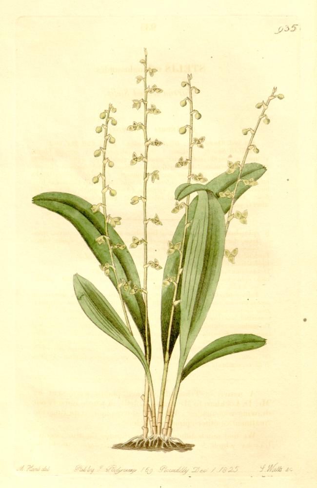 Illustration of Stelis ophioglossoides